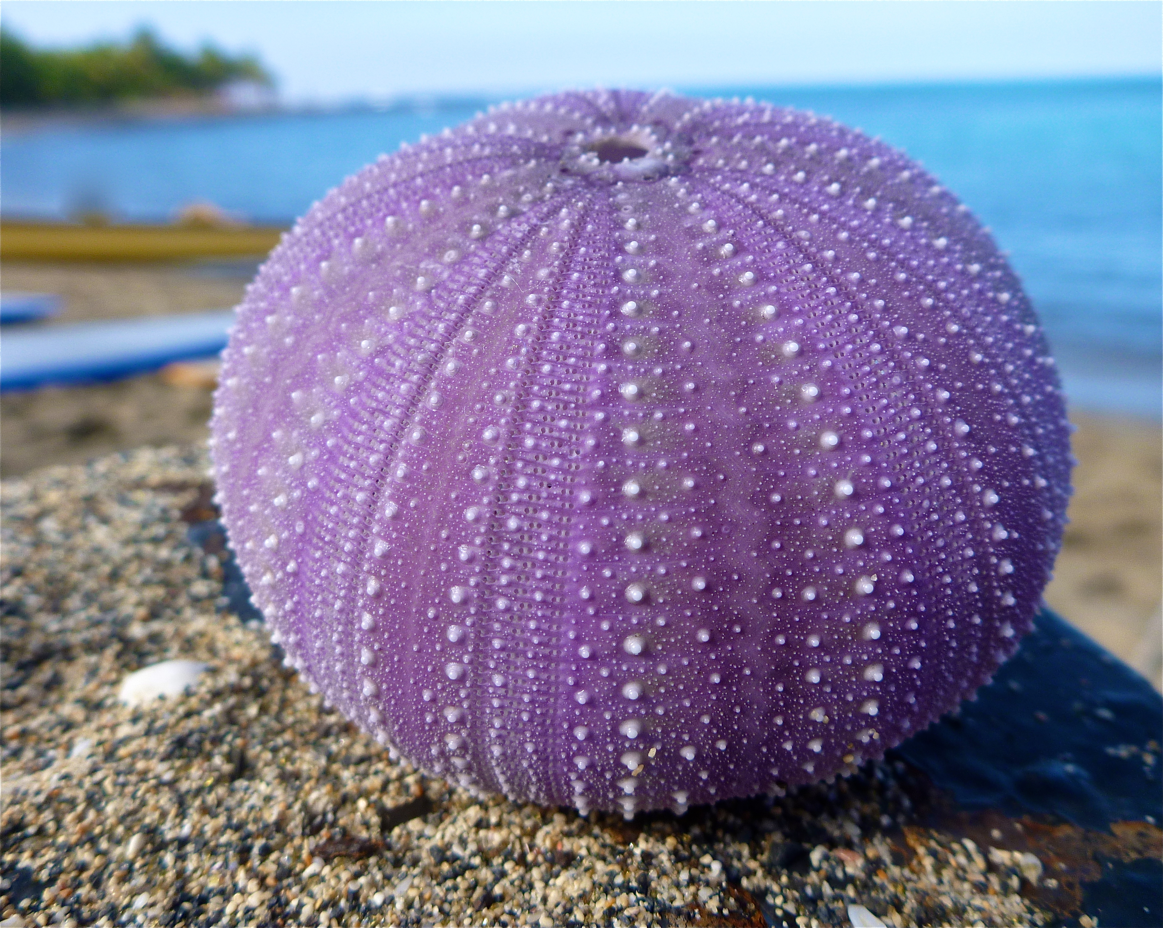 The 'test', or shell, of a purple sea urchin (Tripneustes gratilla), taken off the coast of Hawaii. The patterns in the test easily show off urchin's five-fold symmetry. The raised, rounded tubercles are where the spines attach; and through the tiny holes extend either tube feet or gill structures.